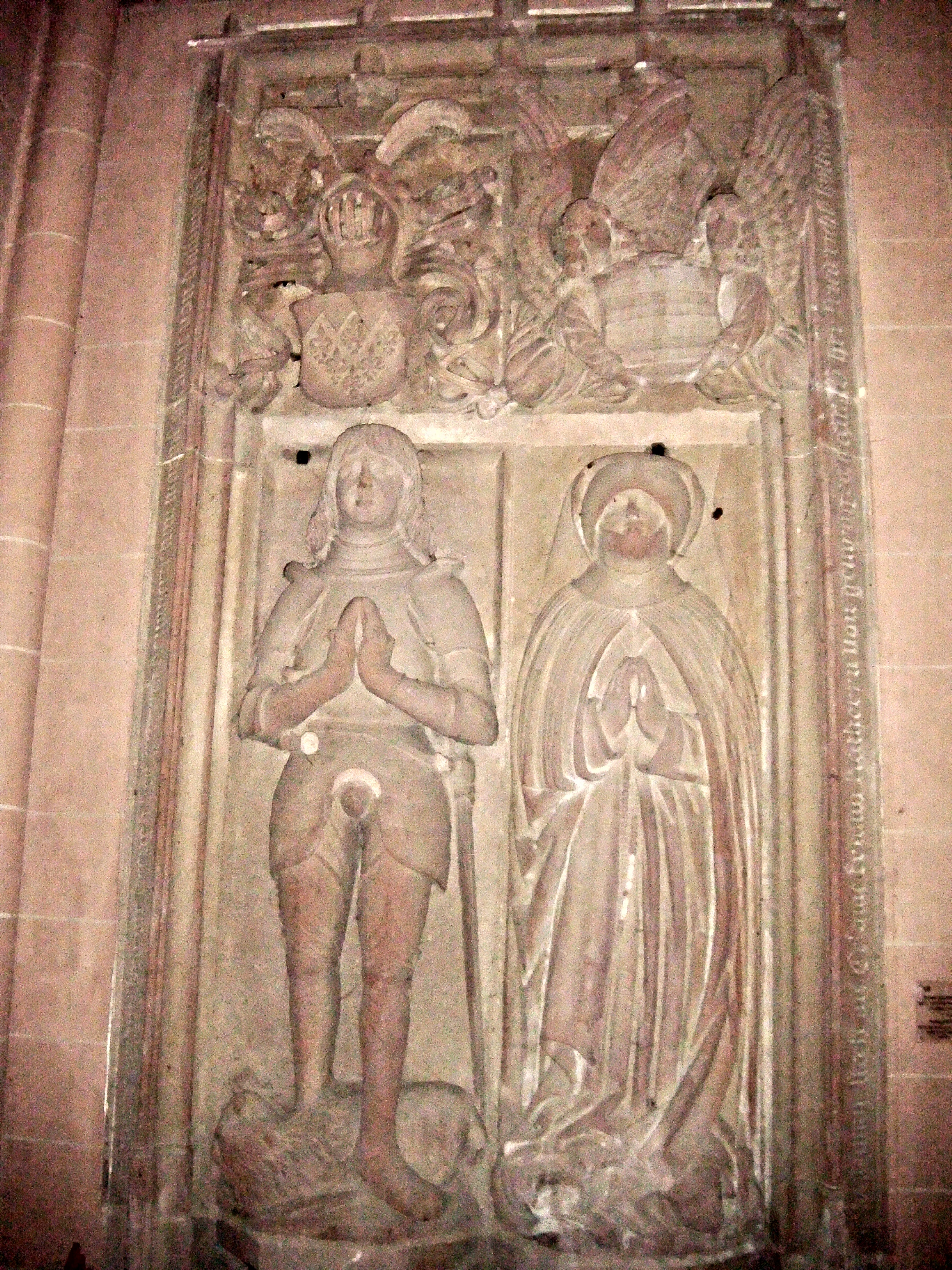 Friedrich von Dalberg (1459-1506), Epitaph in der Katharinenkirche Oppenheim